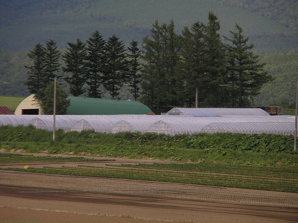 plastic greenhouse-hurano,hokkaido 富良野市鳥沼